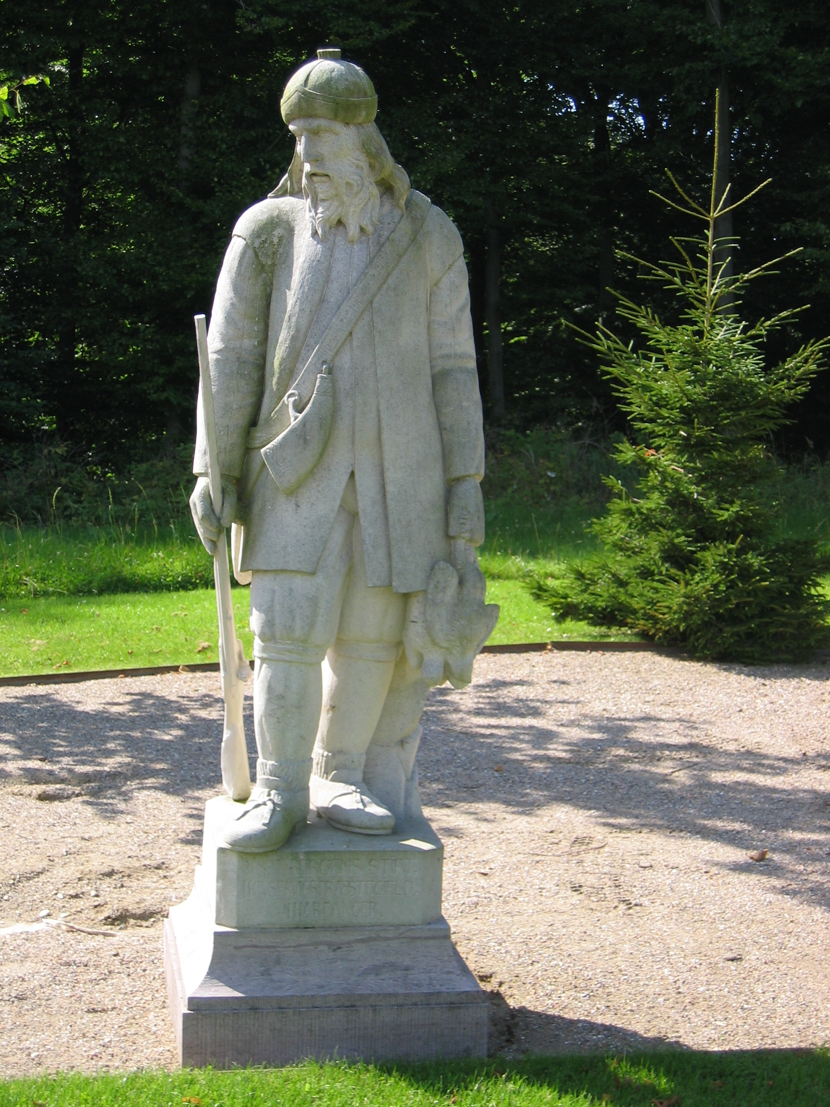 Hunter - Kinservik, Nordmandsdalen, Fredensborg Palace Gardens, Denmark